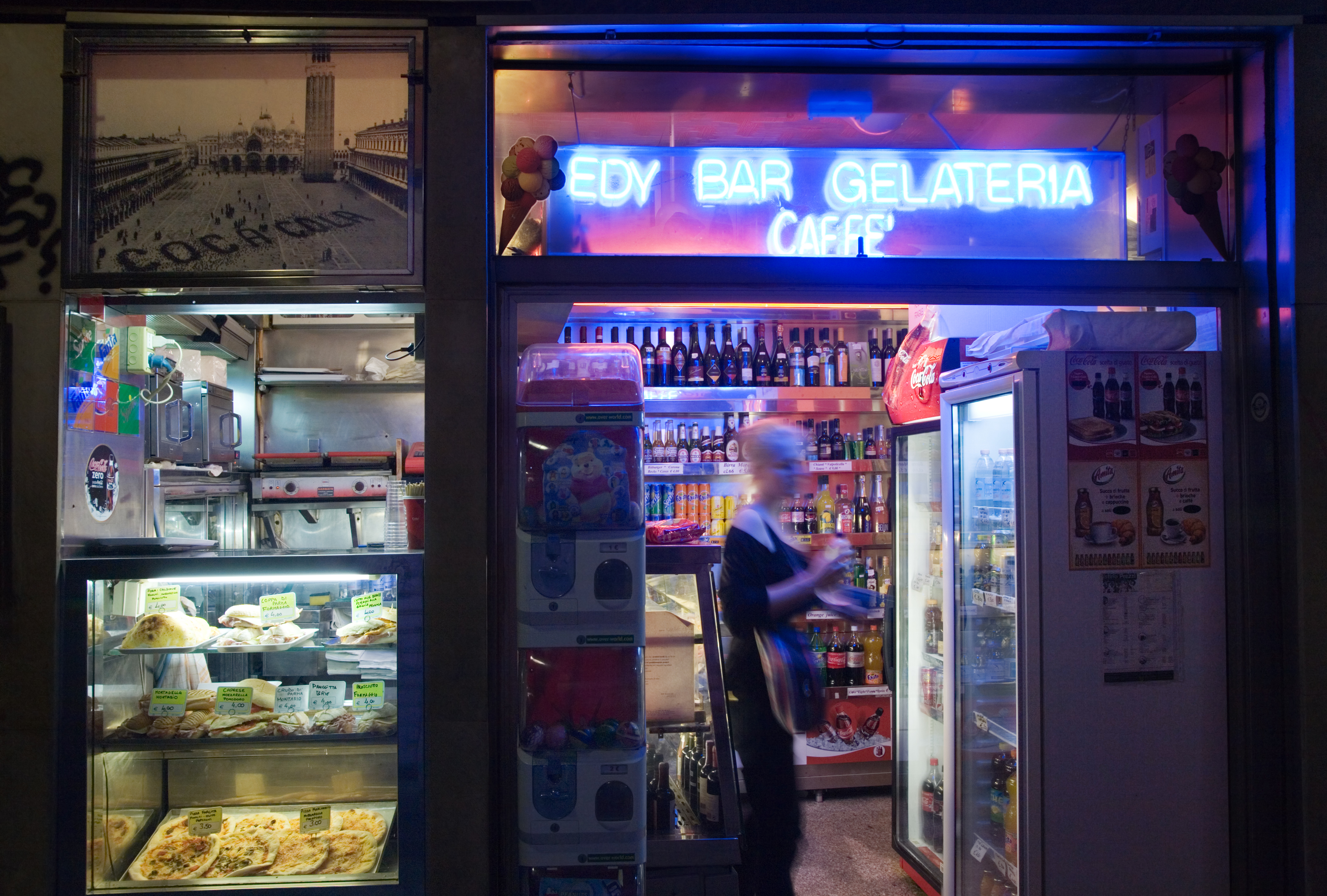 Bar & gelateria with an image of the Piazza San Marco. Venice, Italy 2009